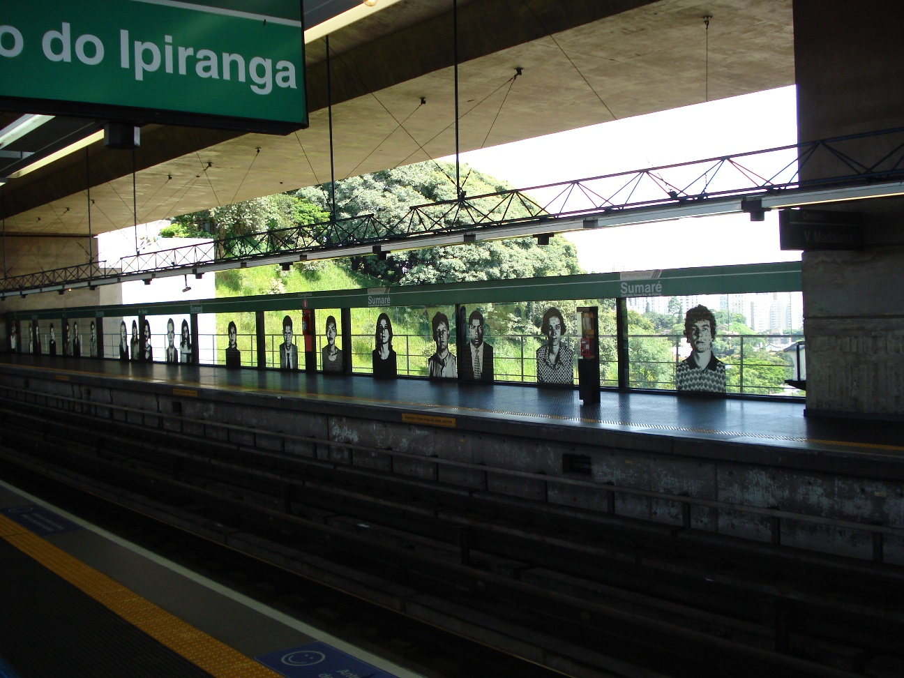 Sumaré Station - Line 2-Green - São Paulo Metro - Brazil.